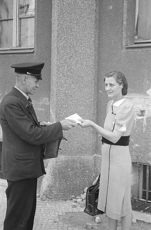 Original image description from the Deutsche Fotothek Reportagen